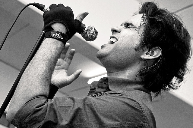 Marian Gold, singer of the band Alphaville in São Paulo, Brazil